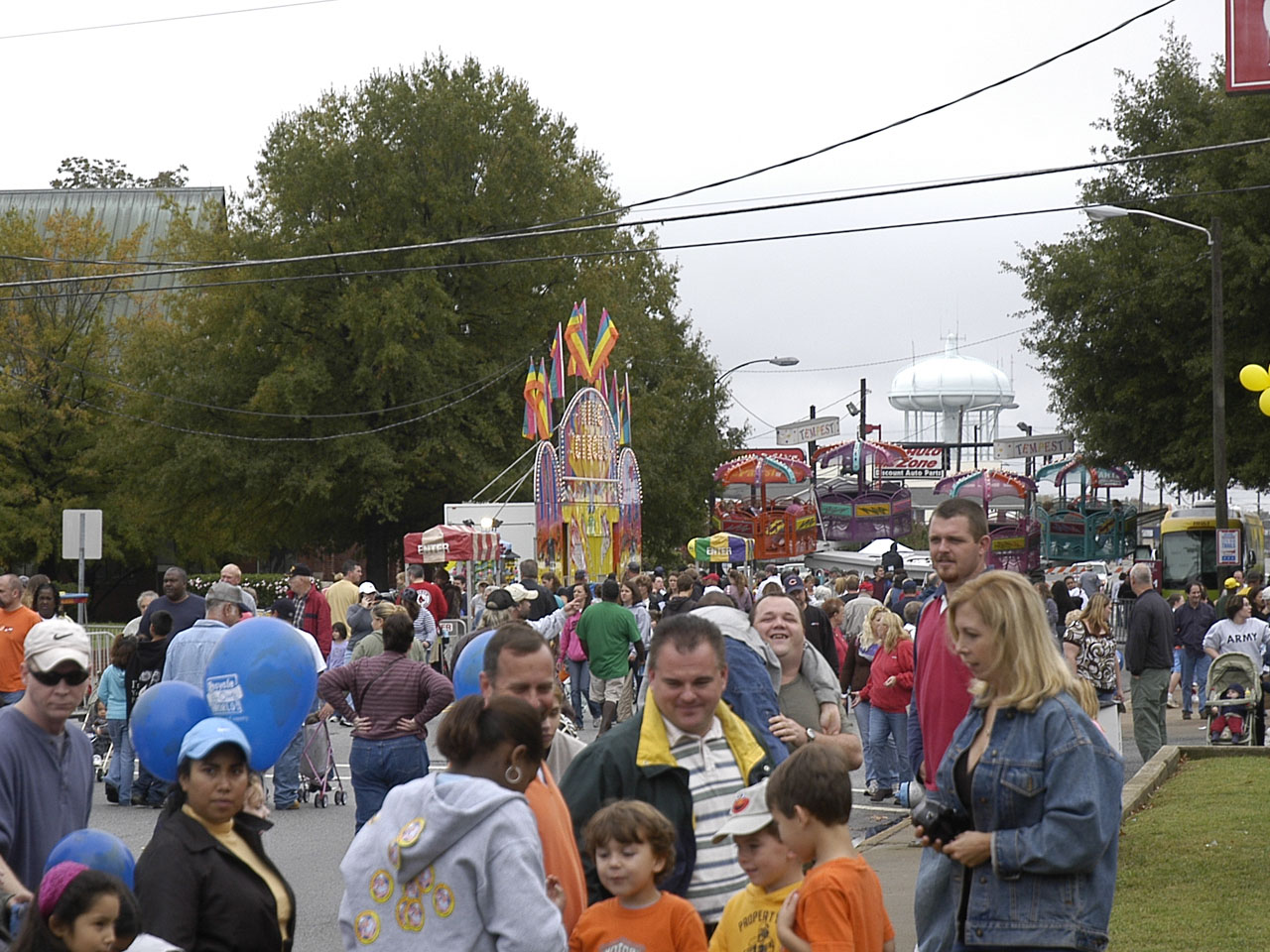 Lexington Barbecue Festival - A view of some of the rides.